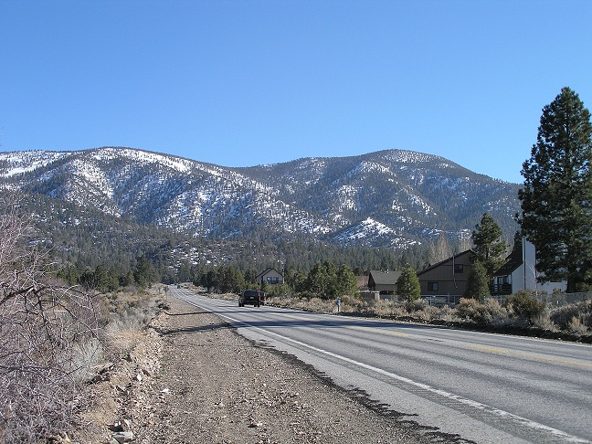 View of Sugarloaf Mountain from Hwy 38 going towards Onyx Summit. The mountain is still covered with snow in late April.